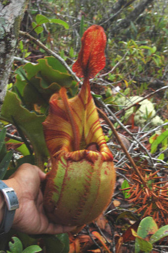 Nepenthes veitchii